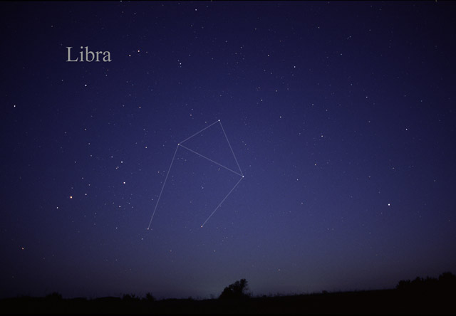 Photography of the constellation Libra, the scales